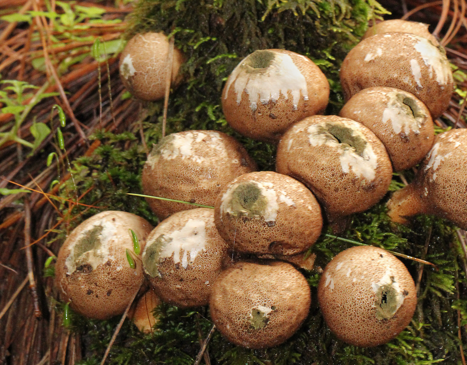 Lycoperdon pyriforme Schaeff.